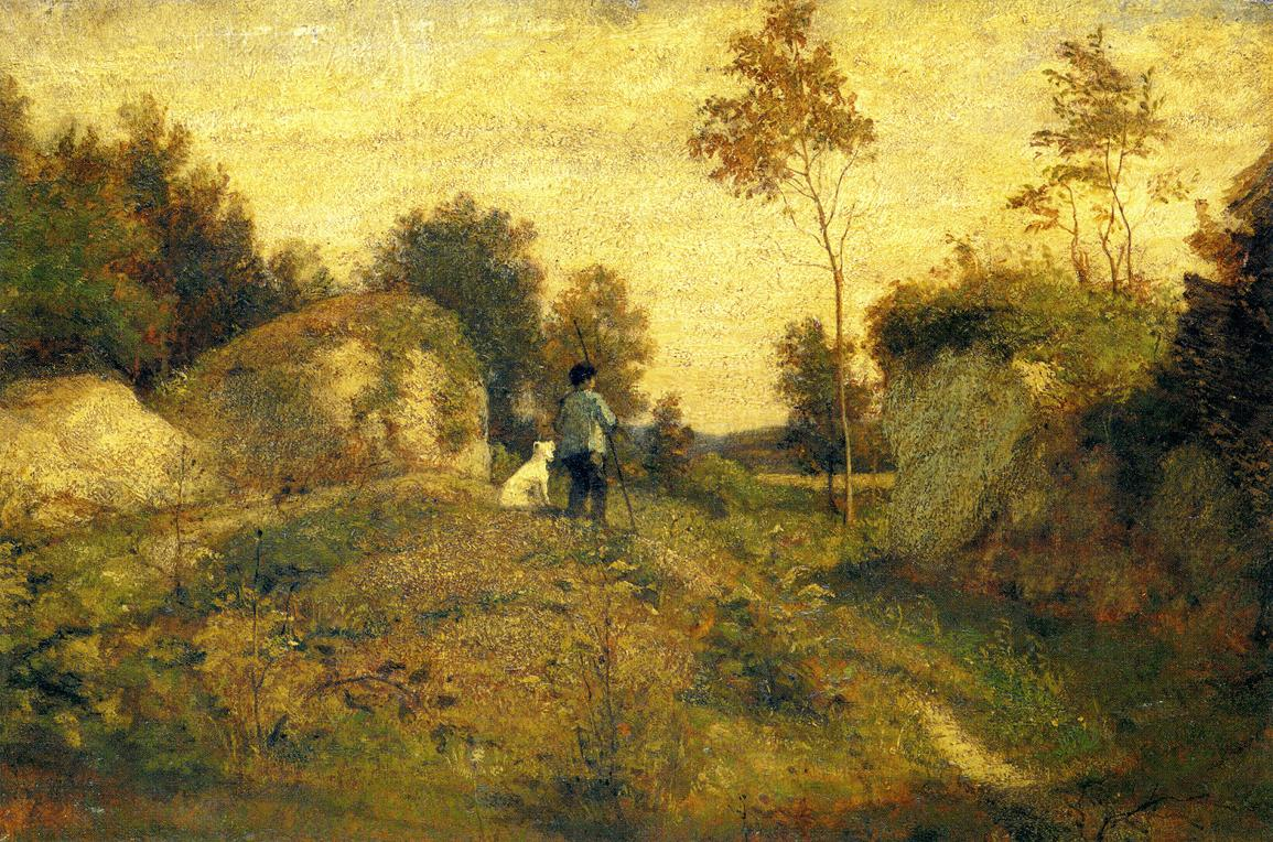 A landscape painting simply entitled 'Landscape,' by Boston artist William Morris Hunt. Oil on pressboard, mounted on wood. Collection of the Metropolitan Museum of Art, New York.